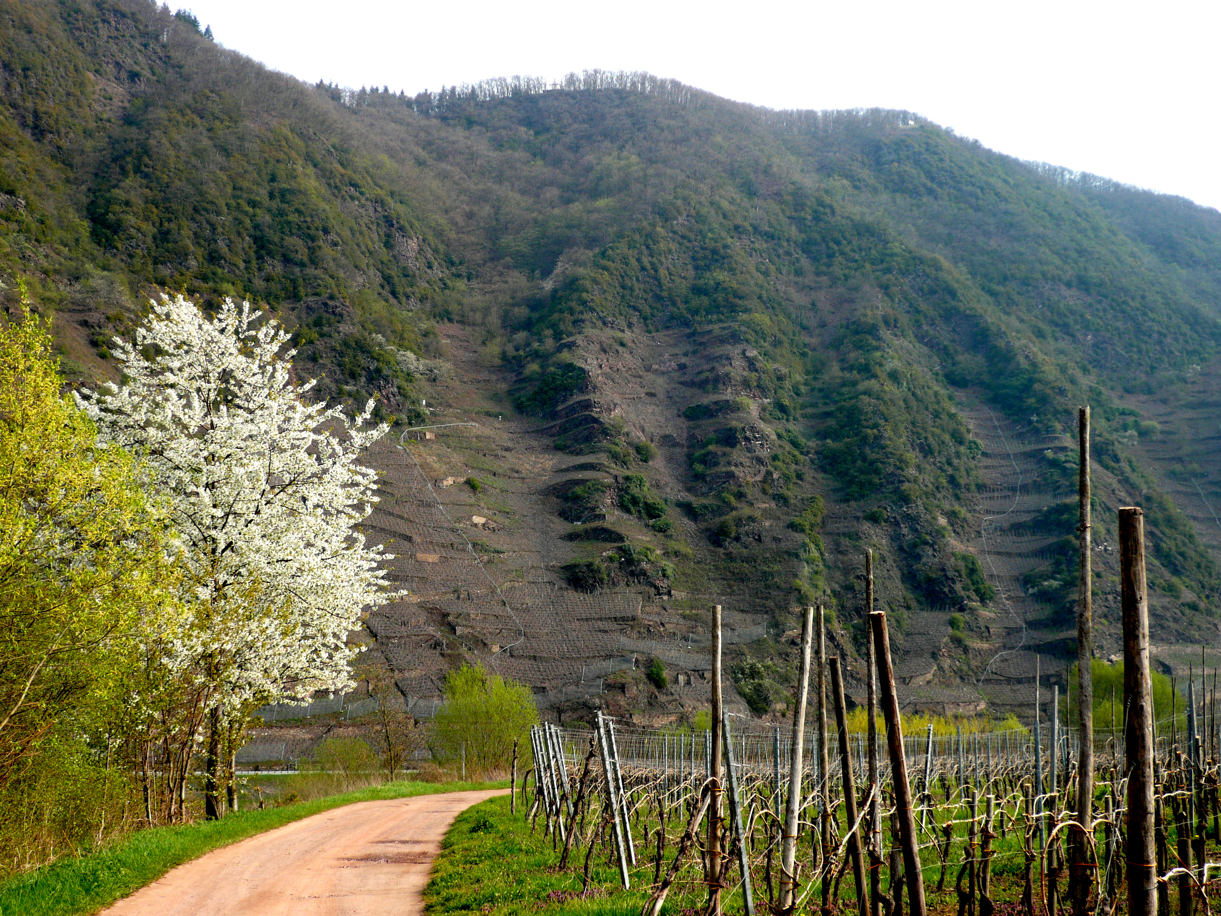 Calmont, wineyard in Mosel valley